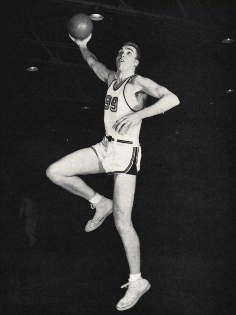 American college basketball player Chuck Share of Bowling Green State University from the 1950 student yearbook, the Key